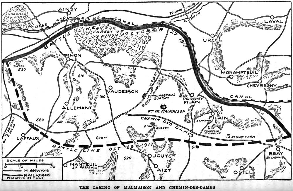 Map showing French capture of Malmaison, October 1917